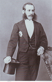 Portrait of Jovan Ristić